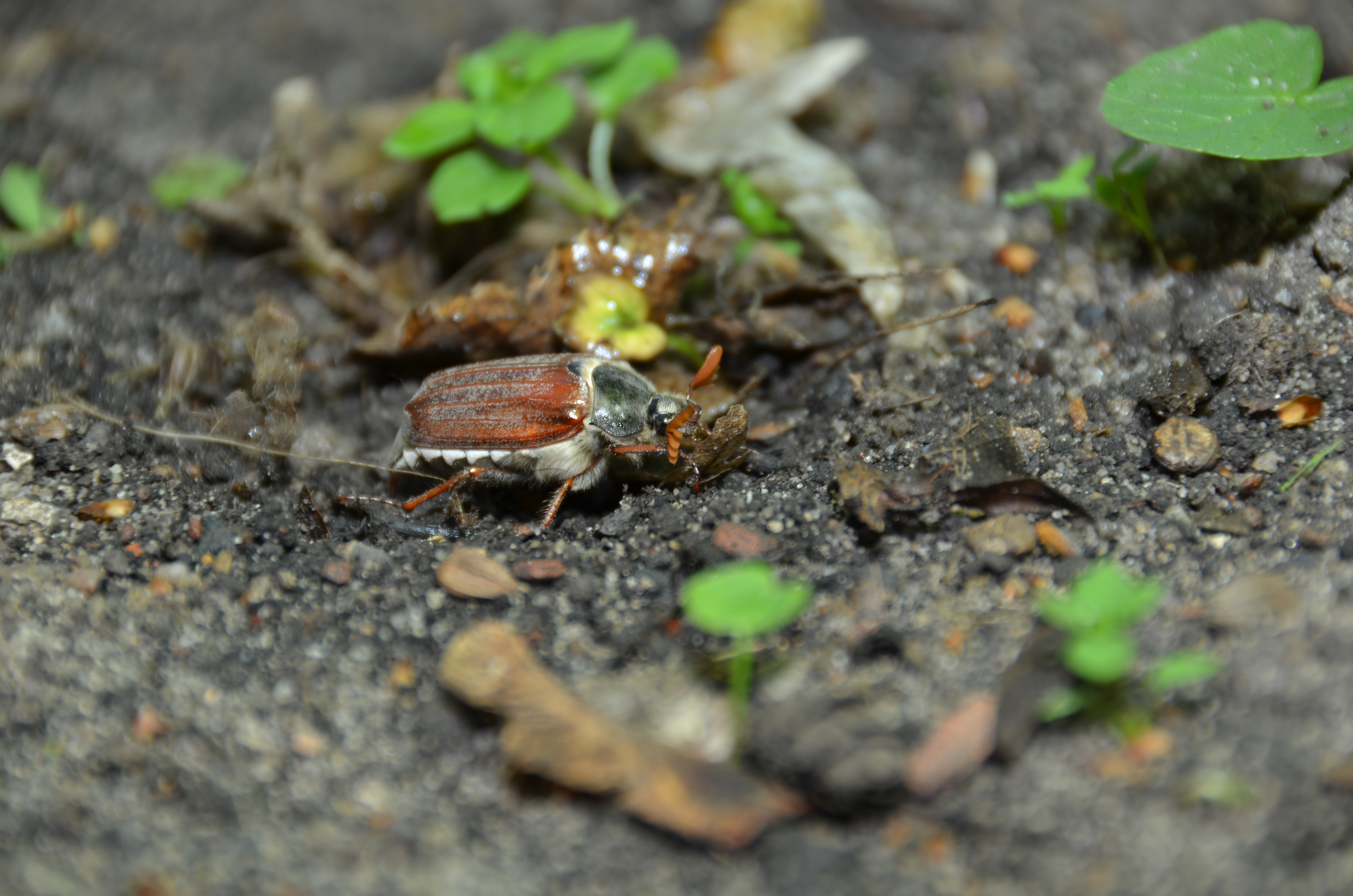 June bug, close up.